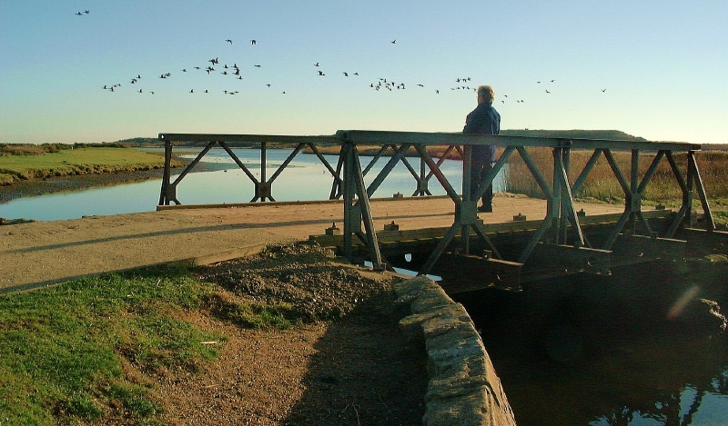 A prototype of the Bailey Bridge across Ma Sillar's Channel, Stanpit Marsh, Christchurch, Dorset. The Bailey Bridge was designed and constructed at the Christchurch Barracks. Ma Sillar was a notorious 18th century smuggler. The Ma Sillers channel (now all but silted up) lead directly to the rear of her pub, The Ship in Distress.